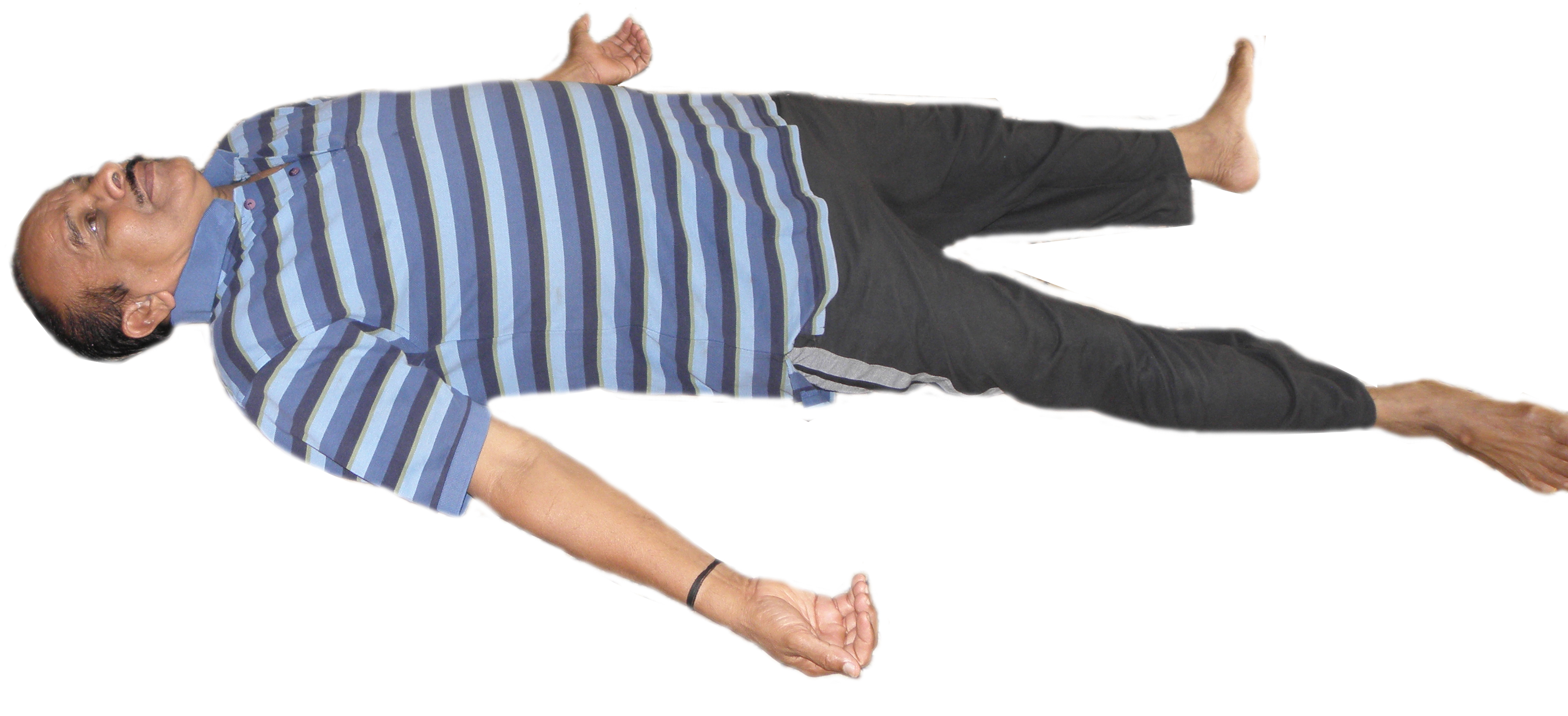 Corpse posture